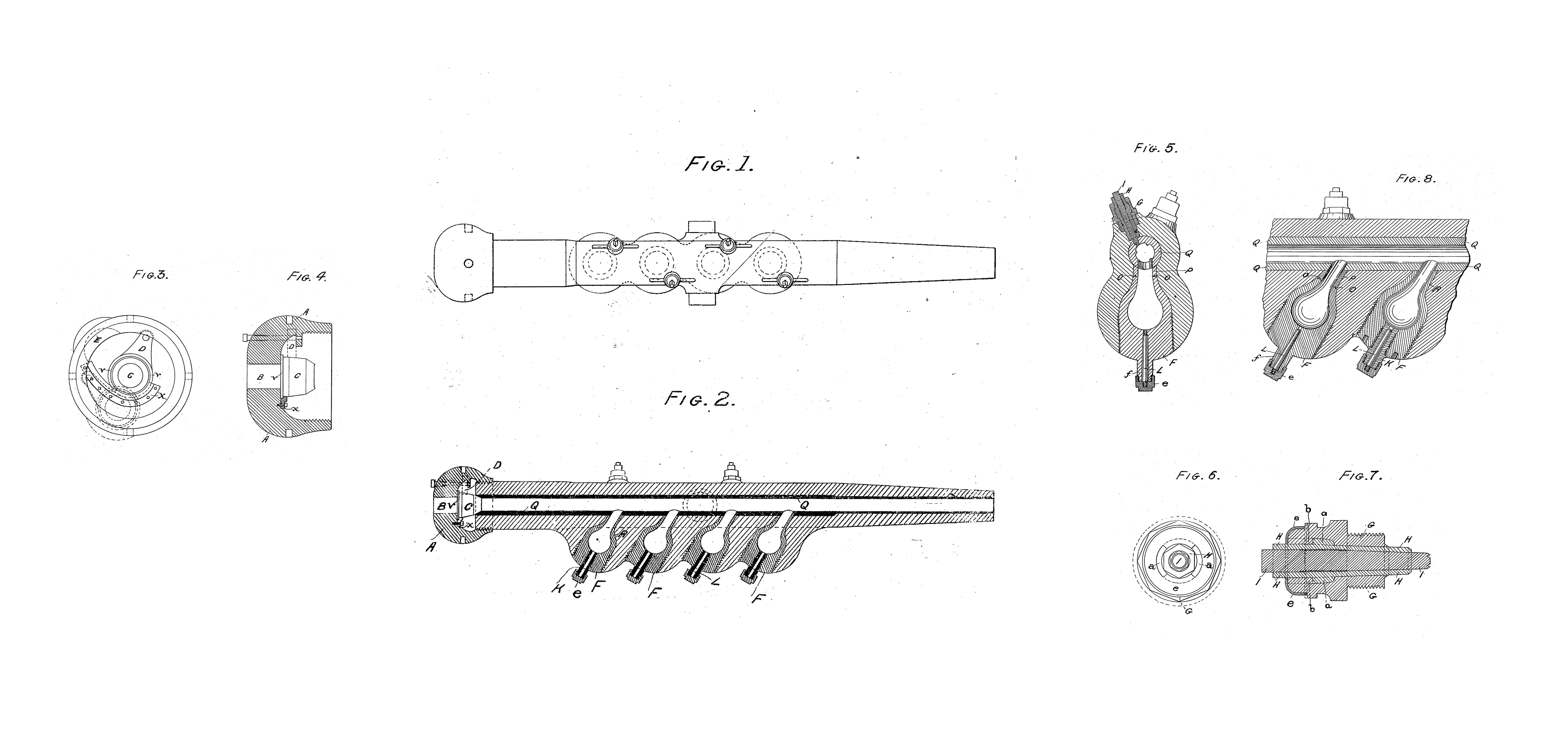 Drawing of the U.S. patent specification 241 978 from 24 May 1881. Cannon working on the multi-charge principle of the american inventor James Richard Haskell.